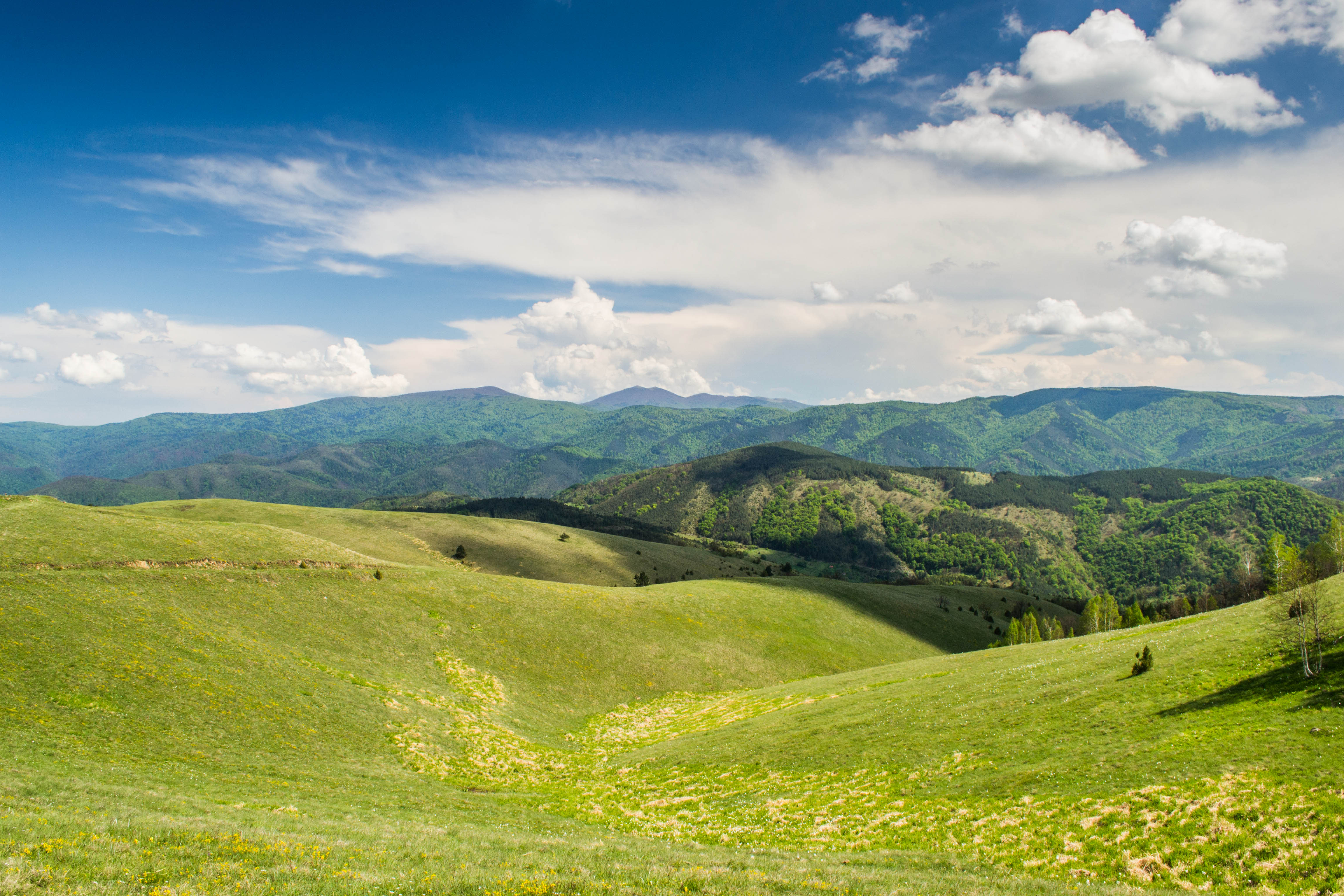 Landscape from the Stolovi mountain.